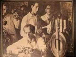 Taken during production of Assamese language film Joymati, released in 1935. Director Jyoti Prasad Agarwala putting the finishing touches to the filming editing.